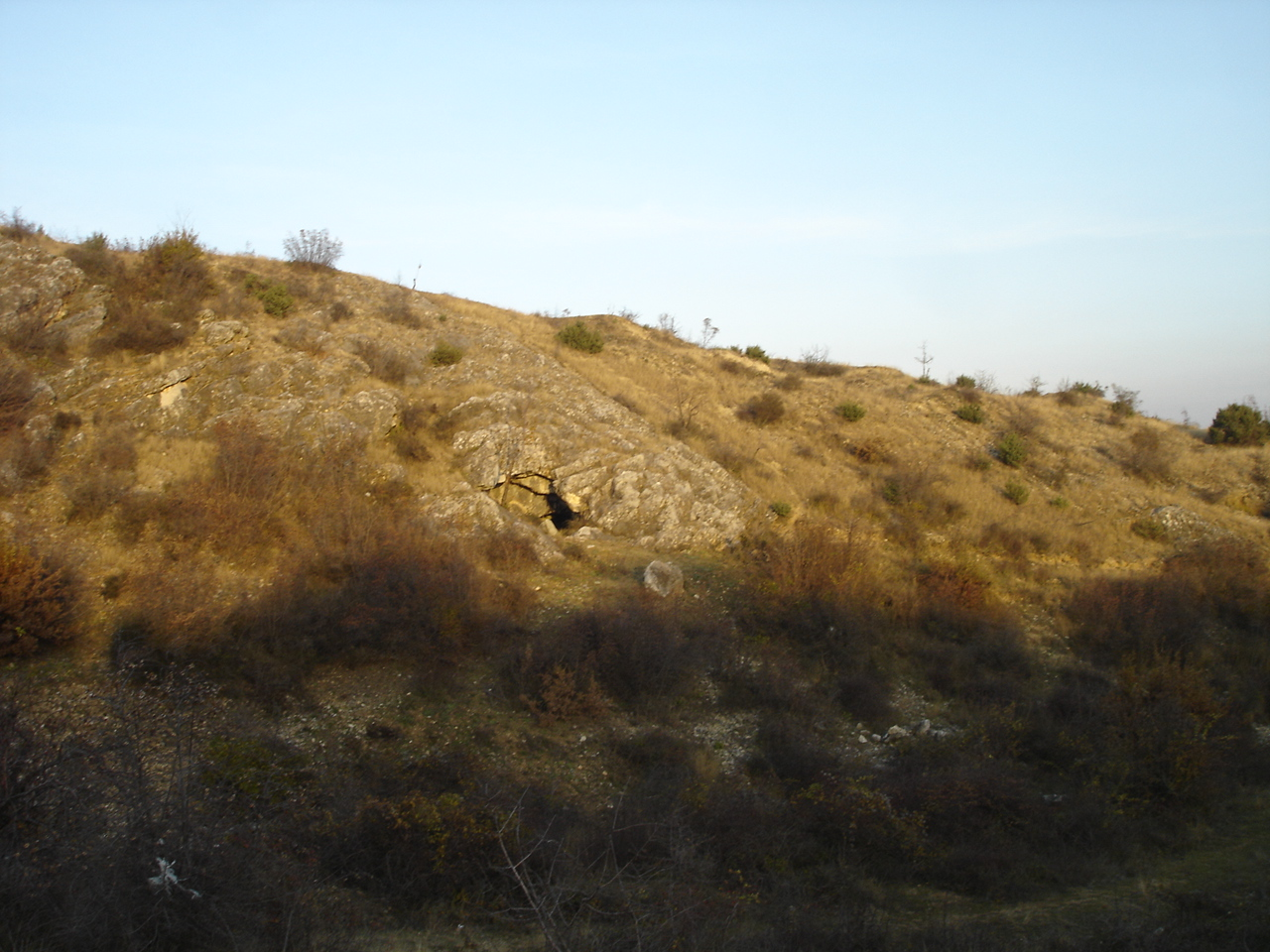 Dona Duka cave near Rashce, Macedonia